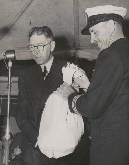 Hudson Fysh handing mails to Captain K.G. Jackson at a ceremony, prior to the departure of the first Constellation service to the U.K.